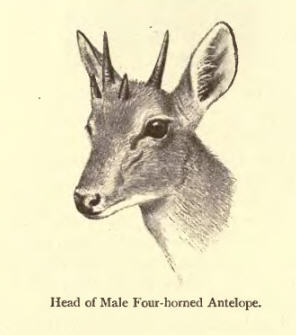 Head of Chousingha